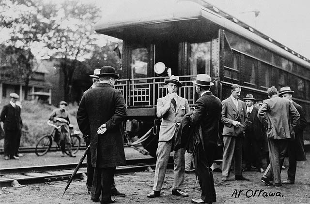 H.R.H. Edward, the Prince of Wales (centre) standing next to a Canadian National Railways passenger car. Ottawa, Ontario